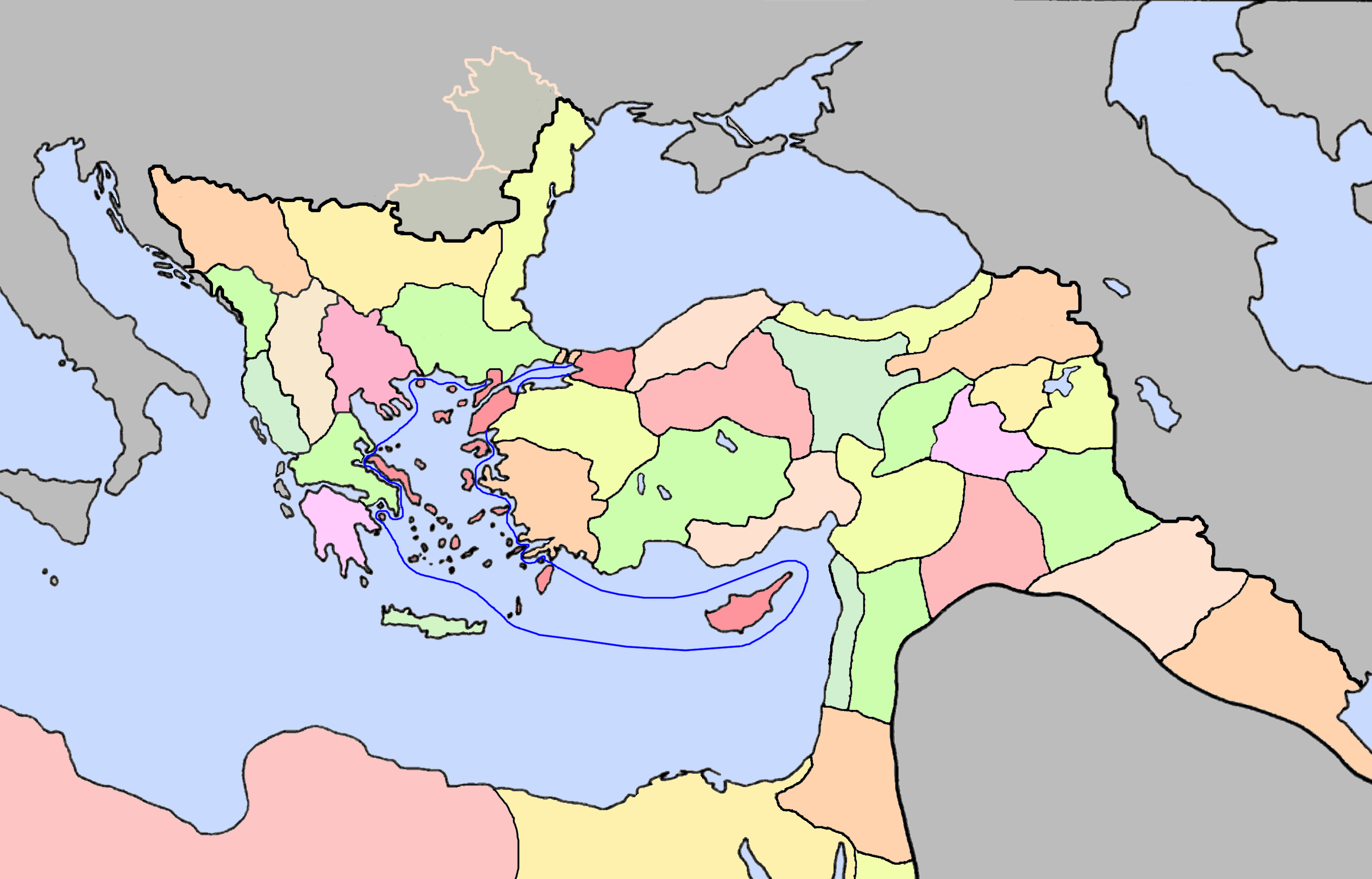 Ottoman Empire 1800 with tributary christian principalities since: An Economic and Social History of the Ottoman Empire, Volume 2, by Suraiya Faroqhi, Bruce McGowan, Donald Quataert, Sevket Pamuk, and Underlying lk.